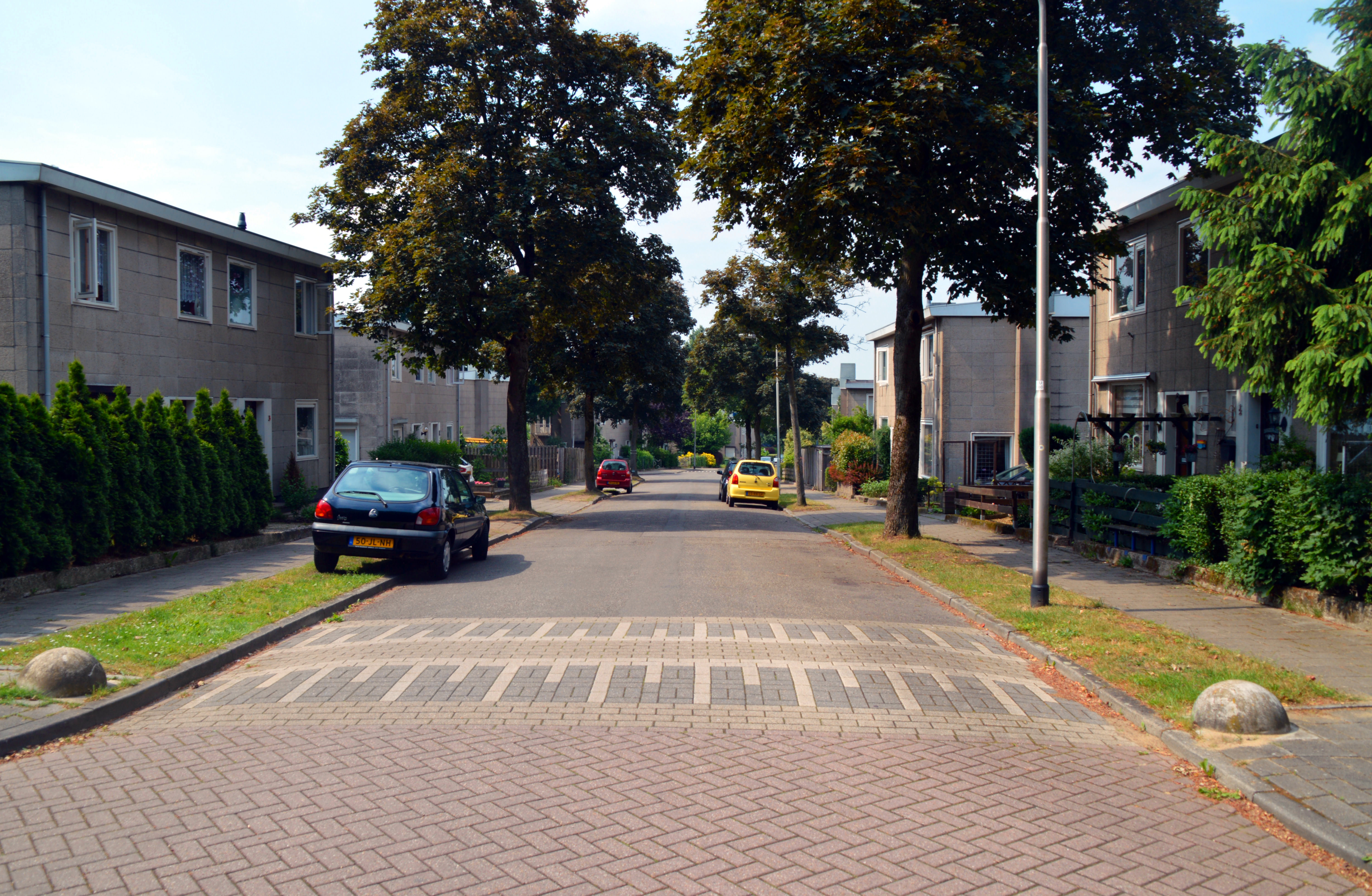 Jerusalem Heseveld Nijmegen Ligusterstraat